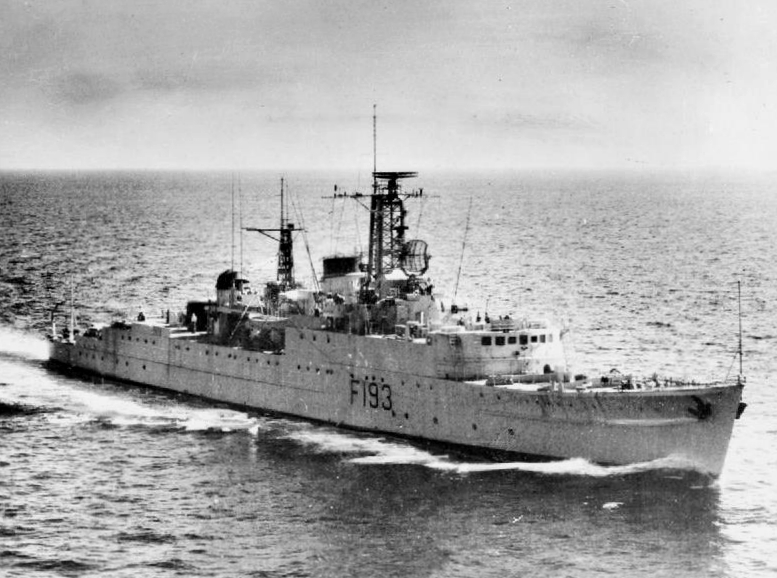 The Royal Navy Type 15 frigate HMS Rocket (F193) underway.